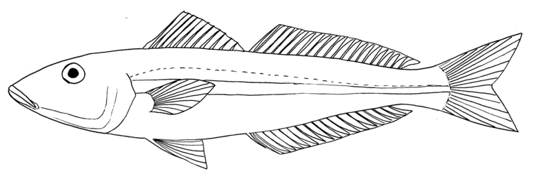 Hand drawn line diagram of the stout whiting, Sillago robusta. Based on NSW DPI images and FishBase photographs